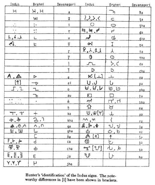 G. R. Hunter's identification of Indus Signs and their match with Brahmi alphabets.